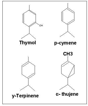 components of ajwain oil